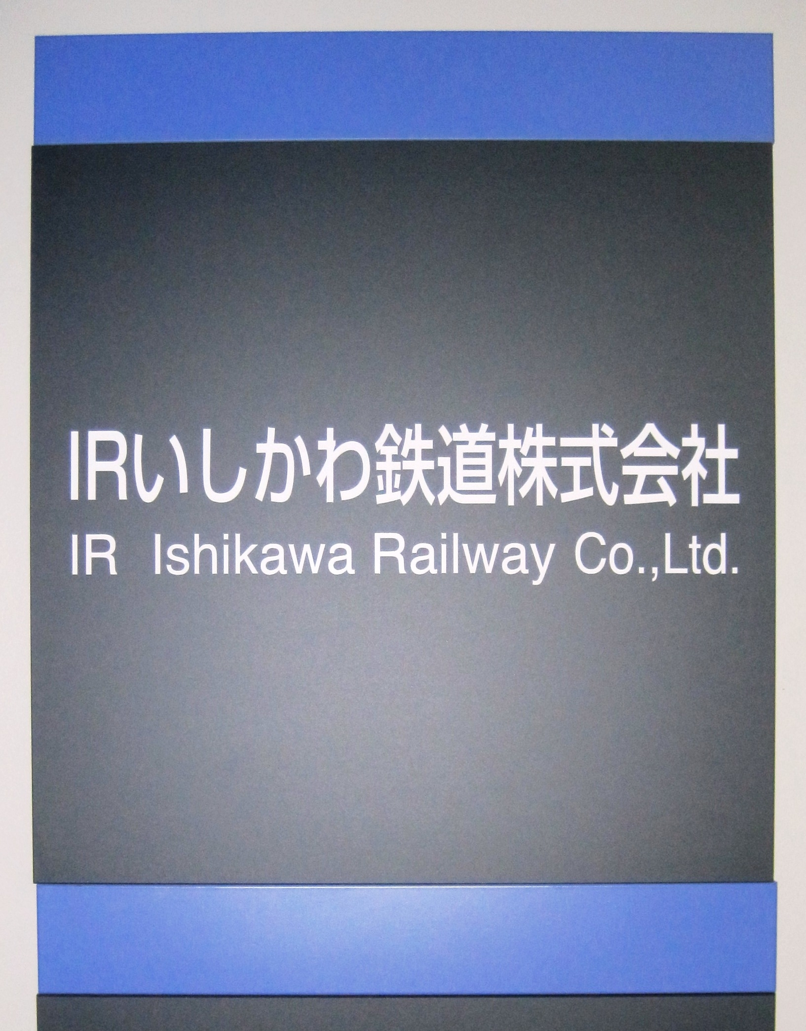 Signboard of the IR Ishikawa Railway Co., Ltd., placed at its headquarters in the Ishikawa Prefectural Office